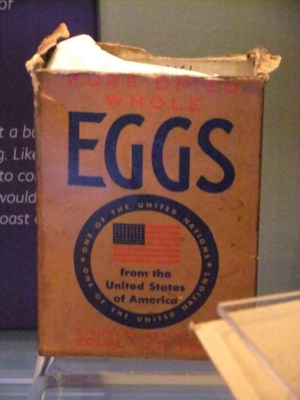 1940s box of pure dried whole eggs from the United States of America. On display at the Museum of Liverpool, England.